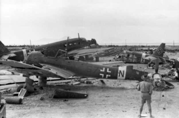 A RAAF airman (right foregound) inspects the destroyed enemy aircraft which litter El Aouina airfield at Tunis, Tunisia, in May 1943. A Junkers Ju 87D Stuka of Sturzkampfgeschwader 3 (StG 3, 3rd Dive Bomber Wing) is visible in the foreground, a Junkers Ju 52 3/m transport is in the background.